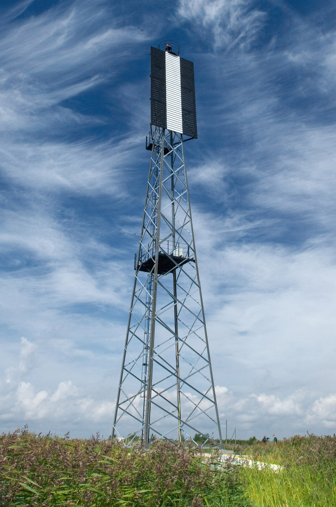 Roomassaare rear light beacon